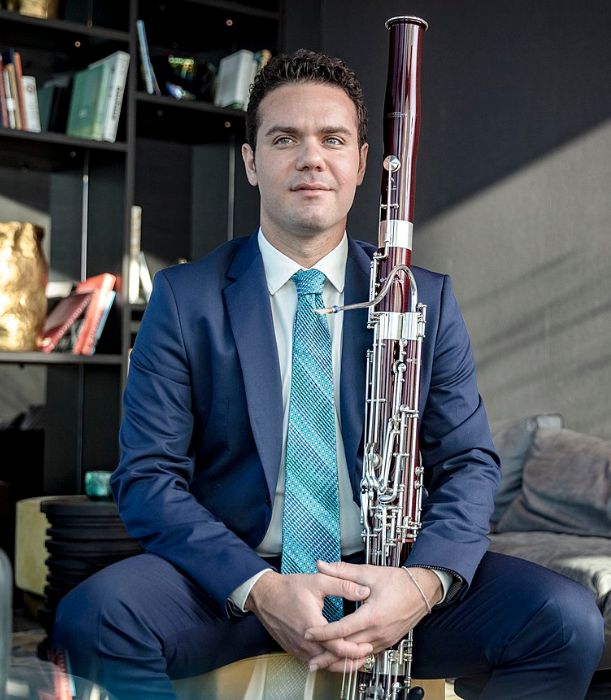 Riccardo Terzo (Zoom)